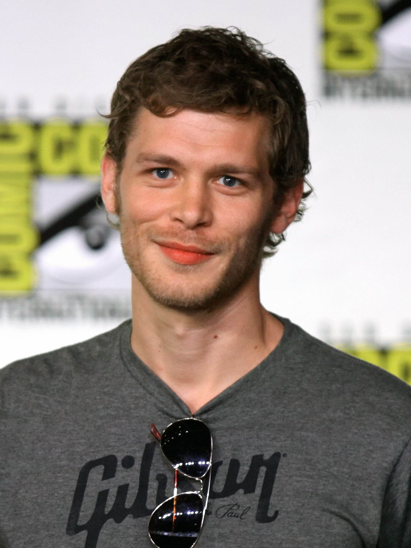 Joseph Morgan at the 2011 Comic Con in San Diego